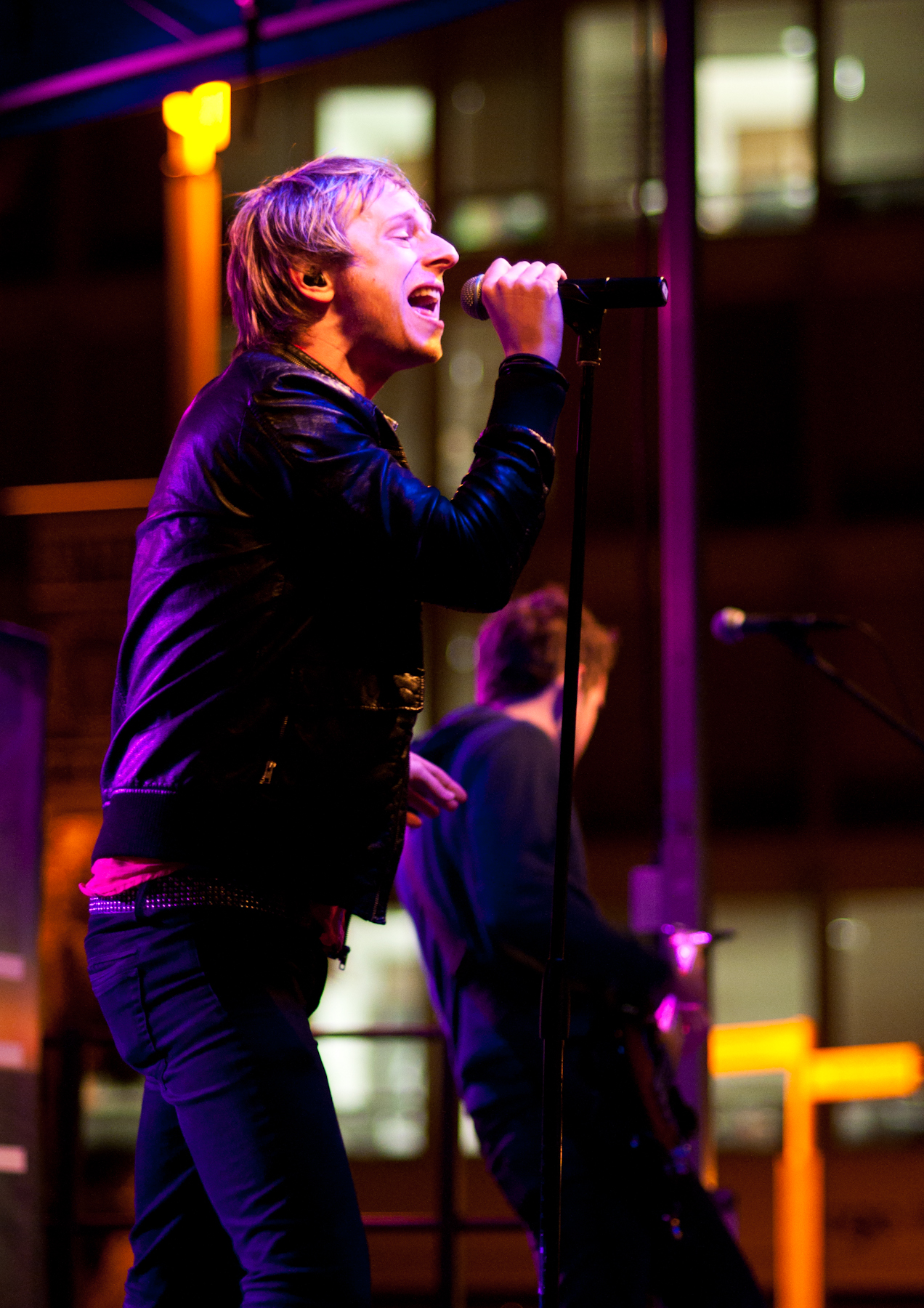 QuietDrive performing for Revellution at UC San Diego